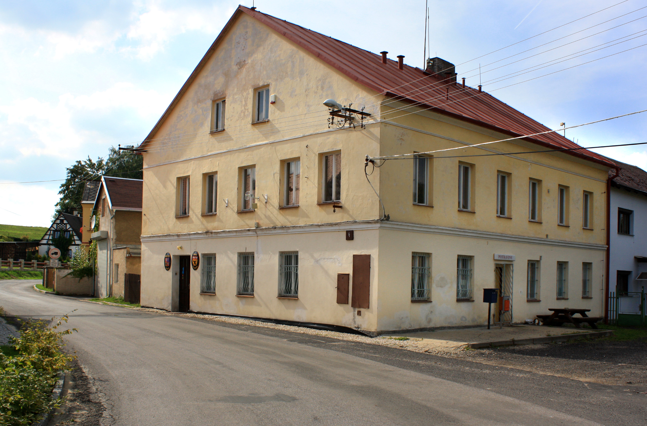 Municipal office in Milíkov village, Czech Republic